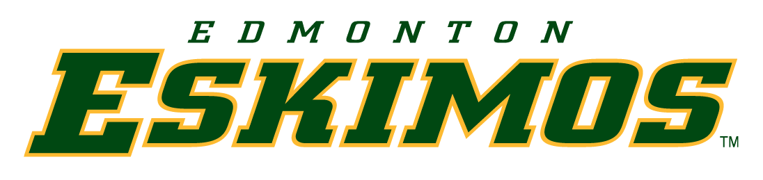 Edmonton Eskimos Wordmark